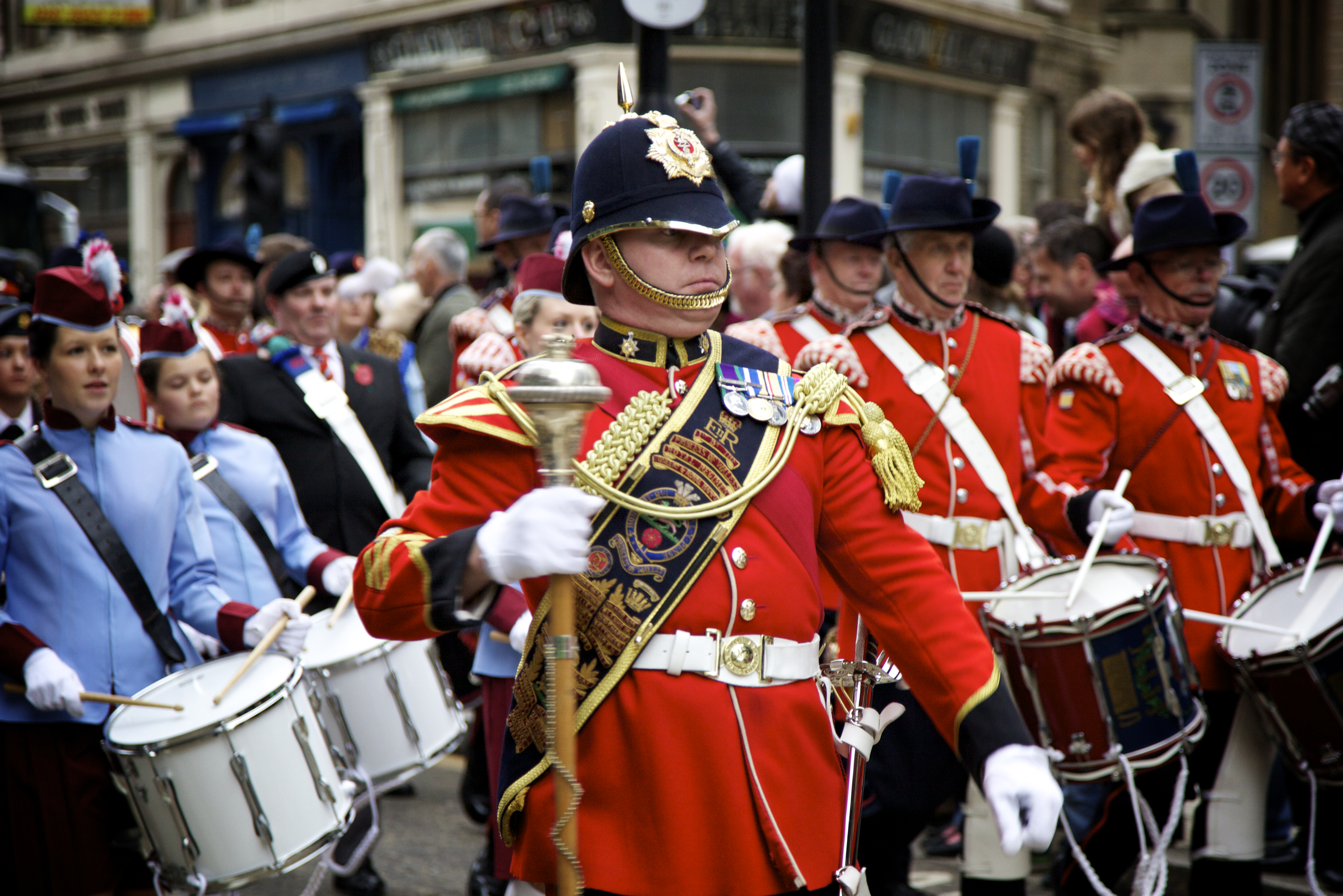 Marching bands and the Corps of Drums of the Princess of Wales's Royal Regiment, in the Lord Mayor's Show. The Lord Mayor's Show is one of the longest established and best known annual events in London which dates back to 1535. The Lord Mayor in question is that of the City of London, the historic centre of London that is now the metropolis's financial district, informally known as the Square Mile. A new Lord Mayor is appointed every year and the public parade that is made of his inauguration reflects the fact that this was once one of the most prominent offices in England.